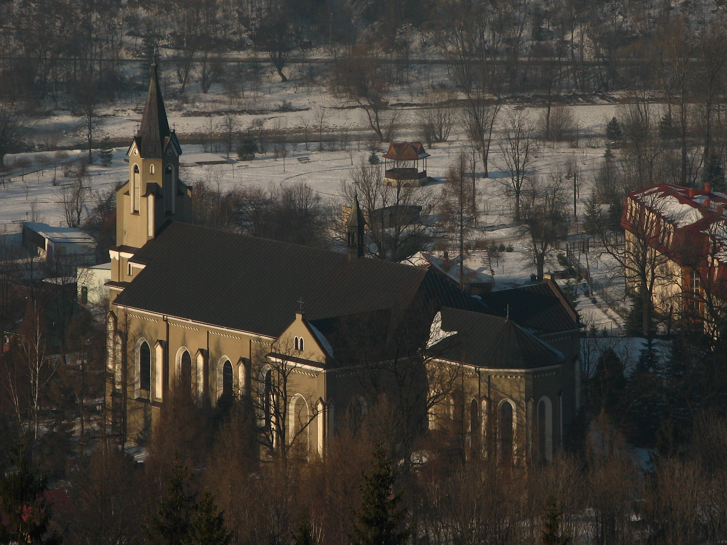 The church in Rajcza from the Compel (Czapel) hillside.